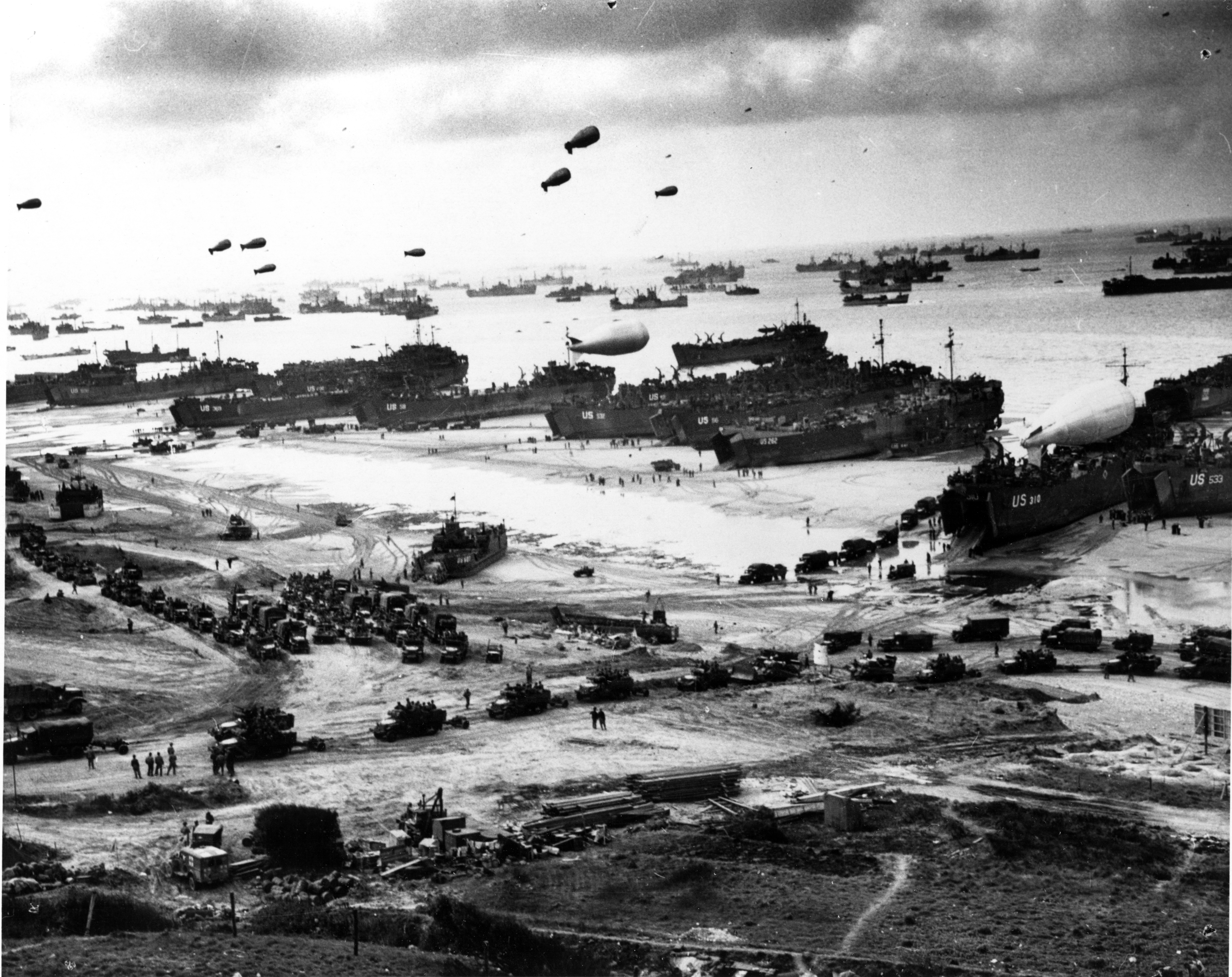 Landing ships putting cargo ashore on Omaha Beach. "A panoramic view of the Omaha beachhead after it was secured, sometime around mid-June 1944, at low tide". The Coast Guard-manned LST-262 is the third beached LST from the right, one of 10 Coast Guard-manned LSTs that participated in the invasion of Normandy, France, in June, 1944. Among identifiable ships present are LST-532 (in the center of the view); USS LST-262 (3rd LST from right); USS LST-310 (2nd LST from right); USS LST-533 (partially visible at far right); and USS LST-524. Note barrage balloons overhead and Army "half-track" convoy forming up on the beach. The LST-262 was one of 10 Coast Guard-manned LSTs that participated in the invasion of Normandy, France.